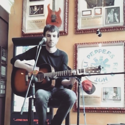 Vasilis 'The Saint' in Hard Rock Cafe Venice, May 2016